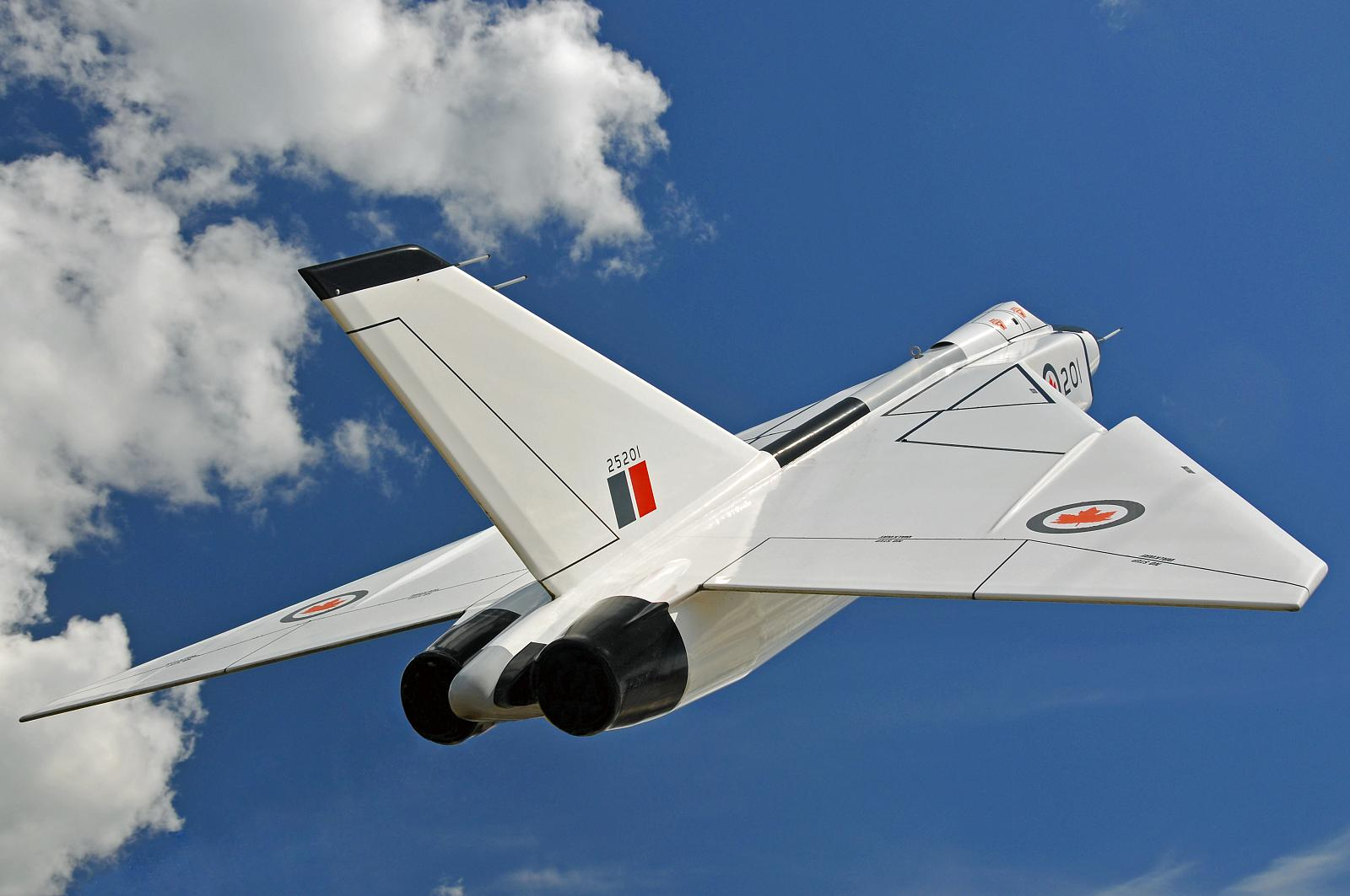 A model of the Avro Arrow, in Barry's Bay, Ontario. Photograph retouched by the author to remove the base of the model [1]. The Avro Arrow was born out of the necessity for the protection of Canada. During the height of the Cold War (1950s) era, the Soviets had introduced new long range bombers, that were capable of flying over the North Pole to attack North America. This was a very serious threat as the continent lived in fear of a surprise nuclear attack. Production was started and less than 4 years later, the Arrow was completed. Roll out was October 4, 1957. First flight was March 25 1958. A source of national pride, the Arrow incorporated advanced technical innovations and became a symbol of Canadian excellence. One of the finest achievements in Canadian aviation history, the delta wing Avro Canada CF-105 Arrow was never allowed to fulfill its mission. The Arrow weapons platform along with the Iroquois engine was cancelled by the Conservative Diefenbaker government February 20, 1959, less than 3 weeks before the MK2 Arrow was to take flight.